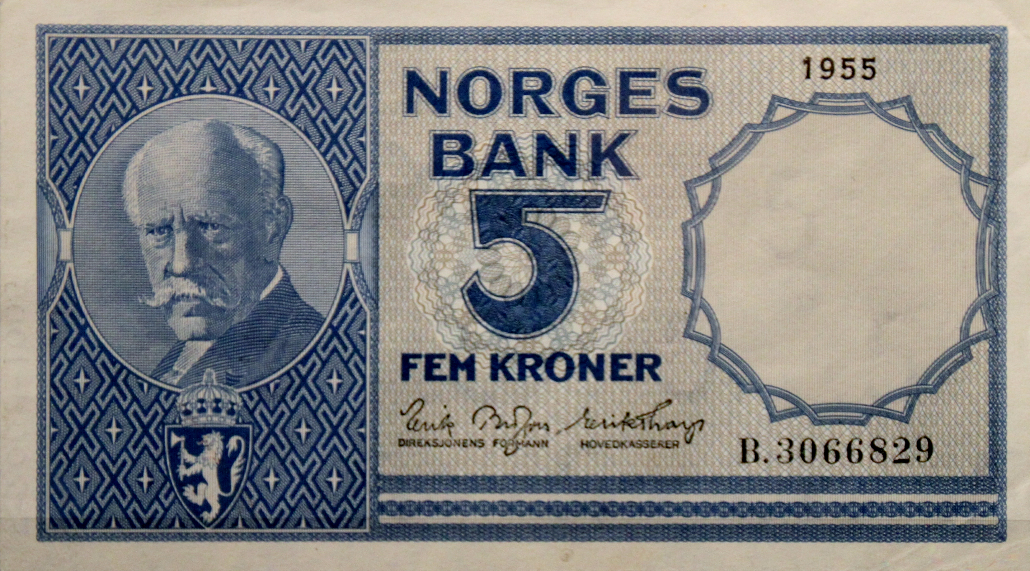 5 norwegian Kroner, 1955. Norsk folkemuseum.